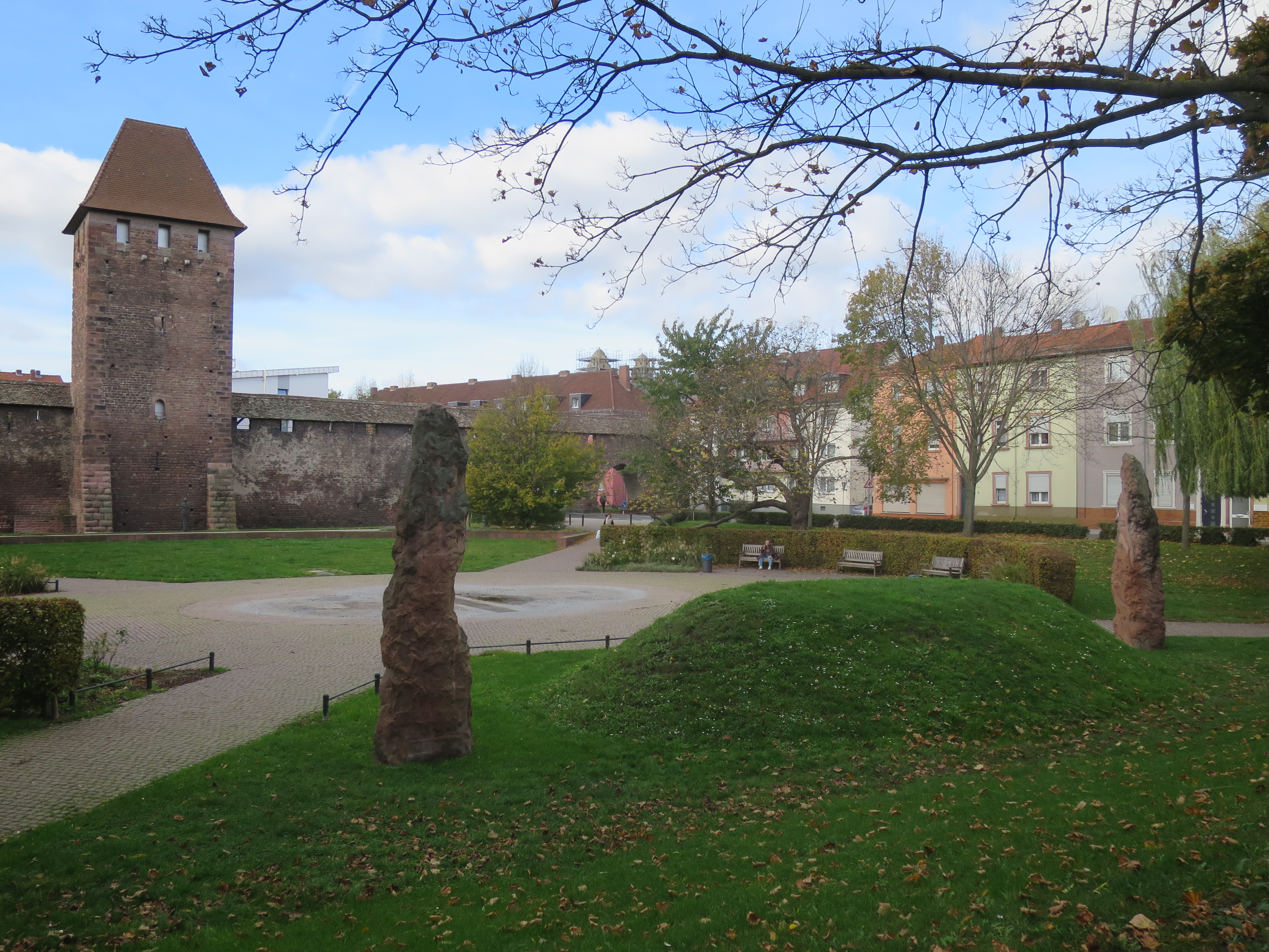 Tomb of Siegfried (modern Monument) in Worms